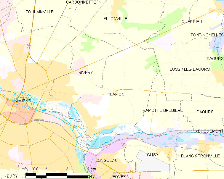 Map of French municipality Camon